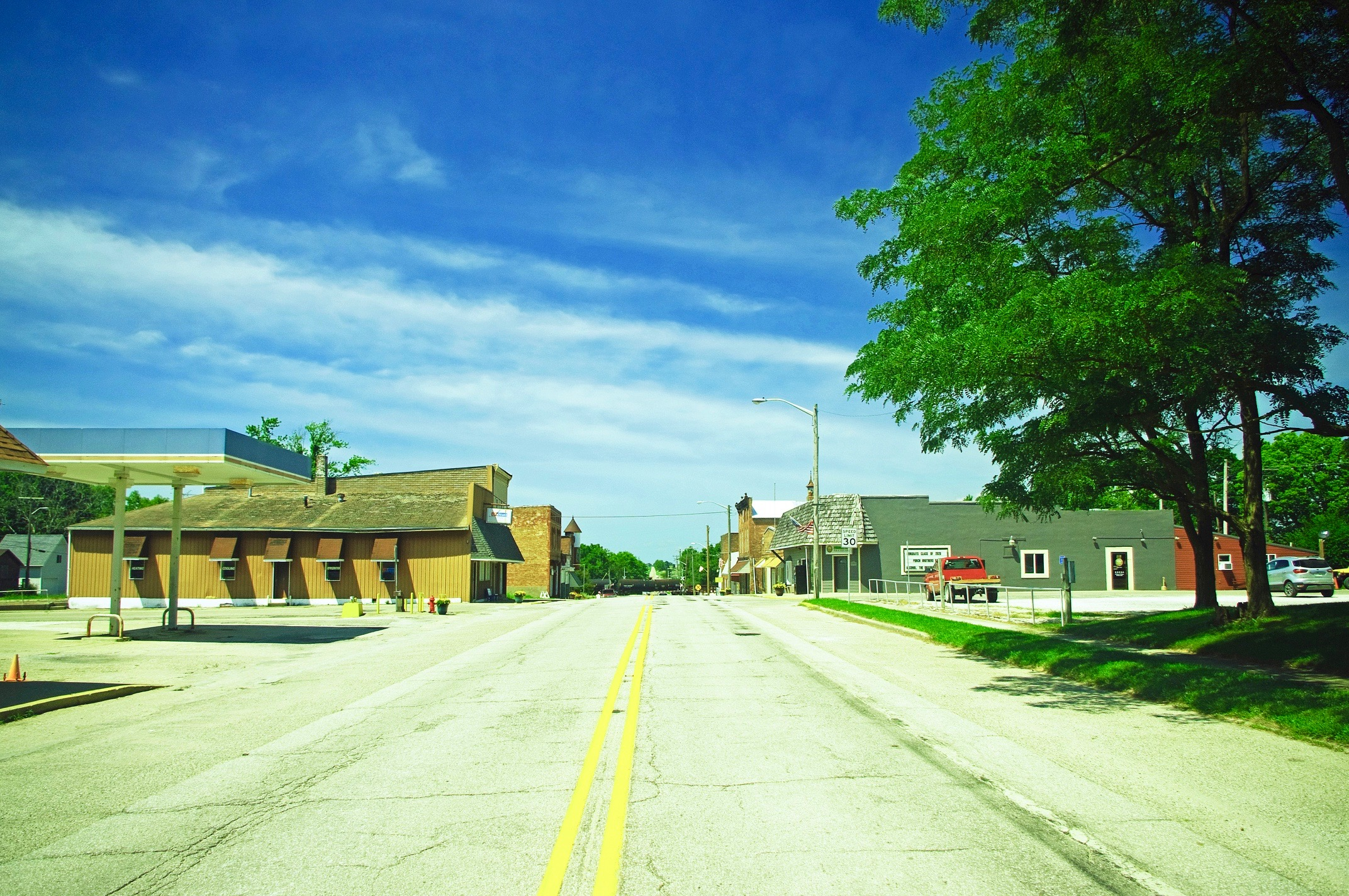 View along High Street (Indiana State Road 263) in West Lebanon, Indiana, United States.